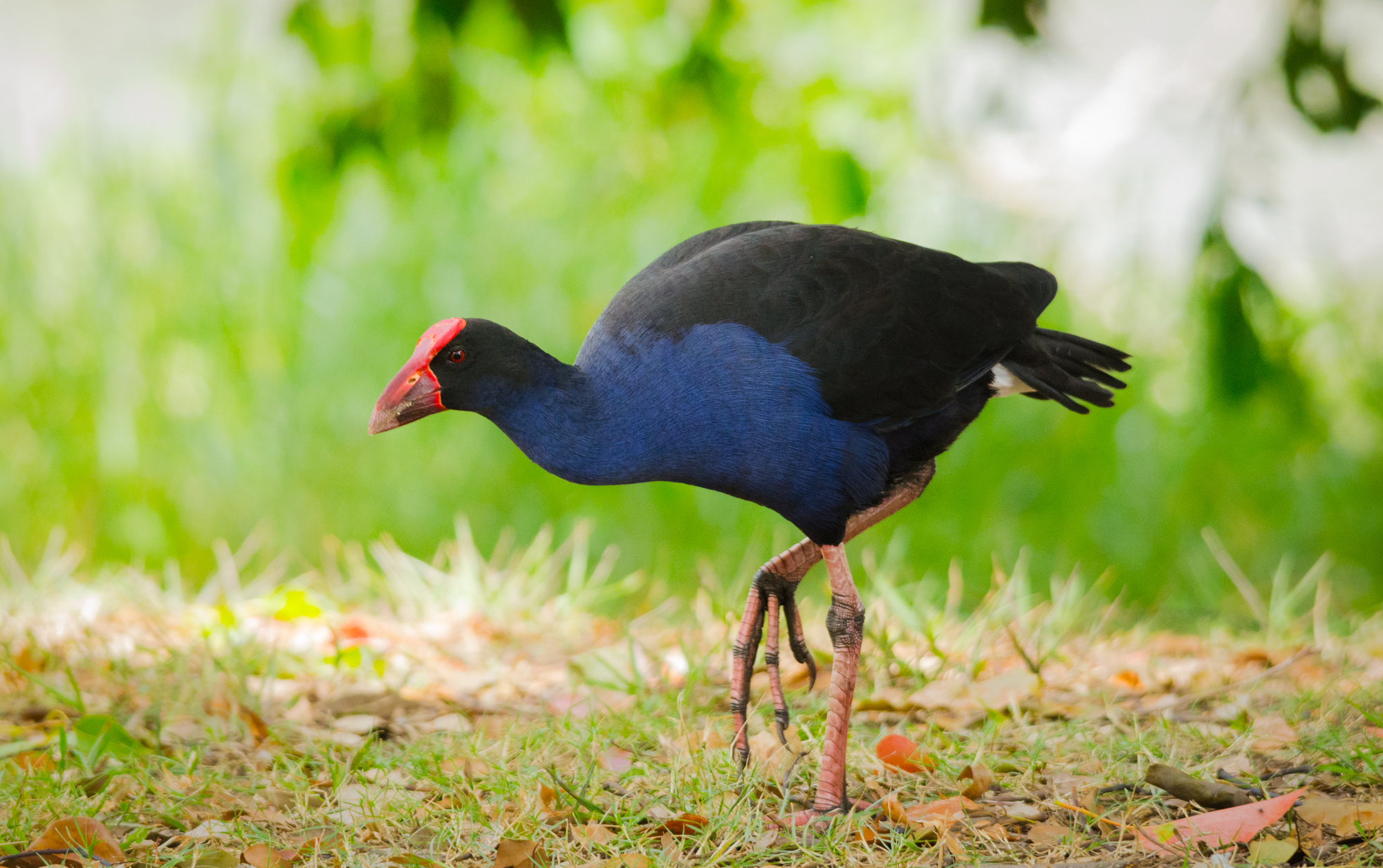 A Purple Swamphen in Australia.